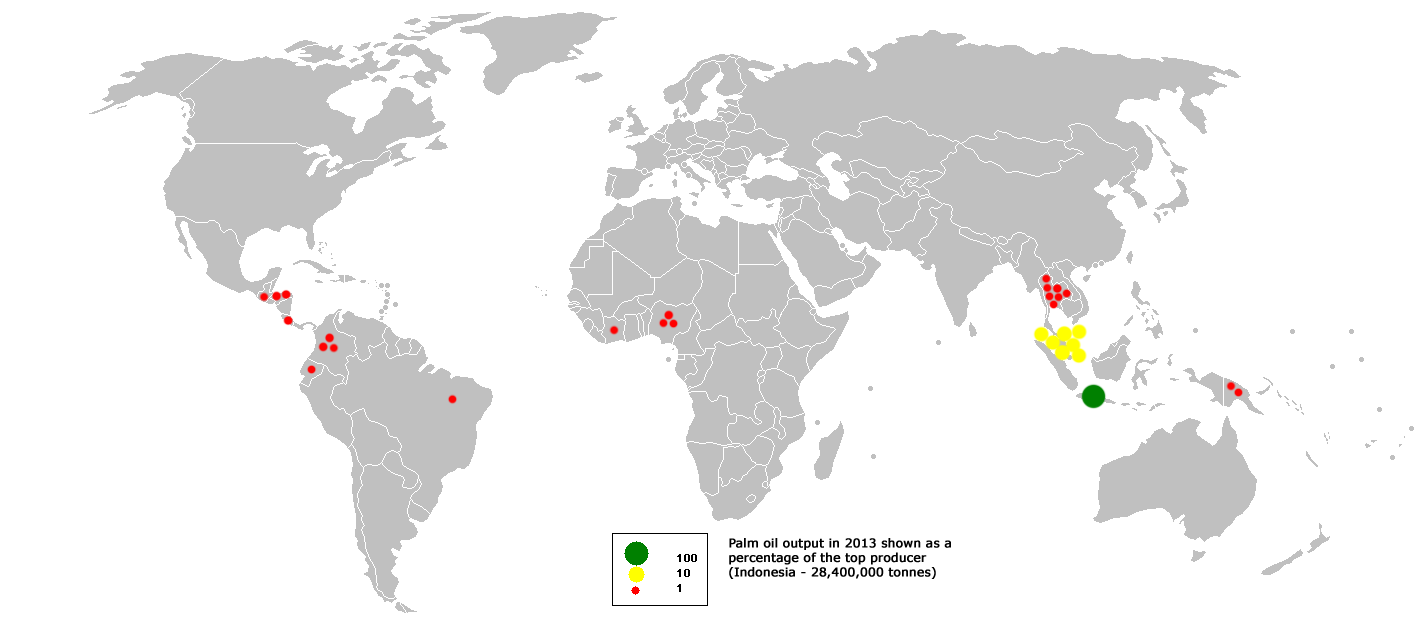 This bubble map shows the global distribution of palm oil output in 2013 as a percentage of the top producer (Indonesia - 28'400,000 tonnes). This map is consistent with incomplete set of data too as long as the top producer is known. It resolves the accessibility issues faced by colour-coded maps that may not be properly rendered in old computer screens. Based on :Image:BlankMap-World-v2